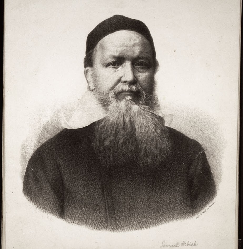 Reverend Samuel Hebich, one of the founding fathers of the CSI Cathedral Church.